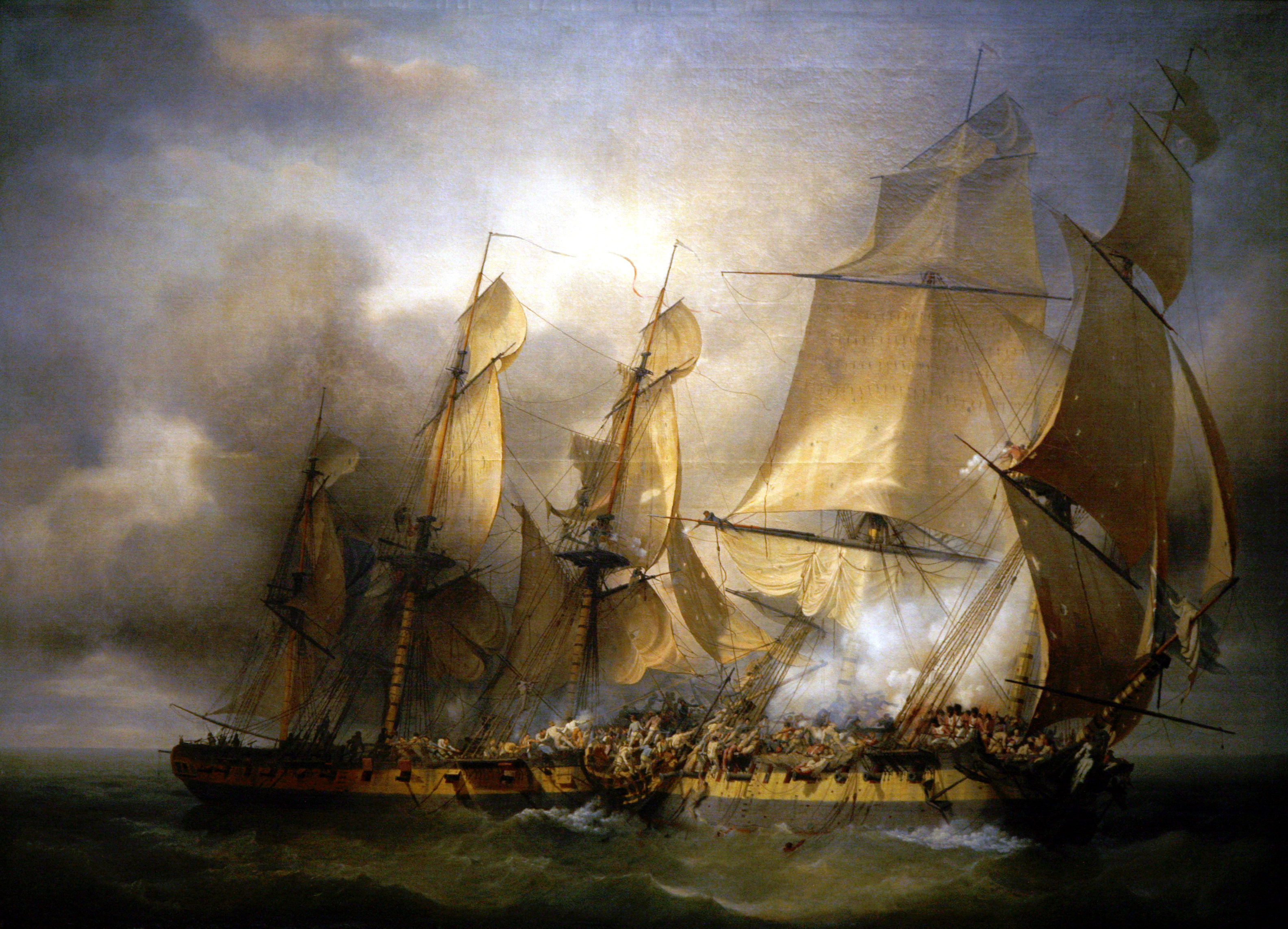 French corvette Bayonnaise boarding HMS Ambuscade during the Action of 14 December 1798